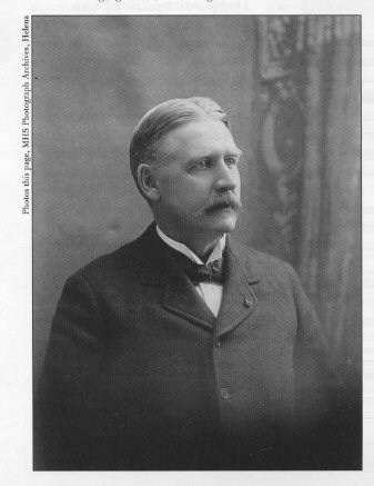 Cabinet portrait of Lester S. Willson, former Brevet Brigadier General, 60th New York Volunteers and Bozeman, Montana merchant circ 1898